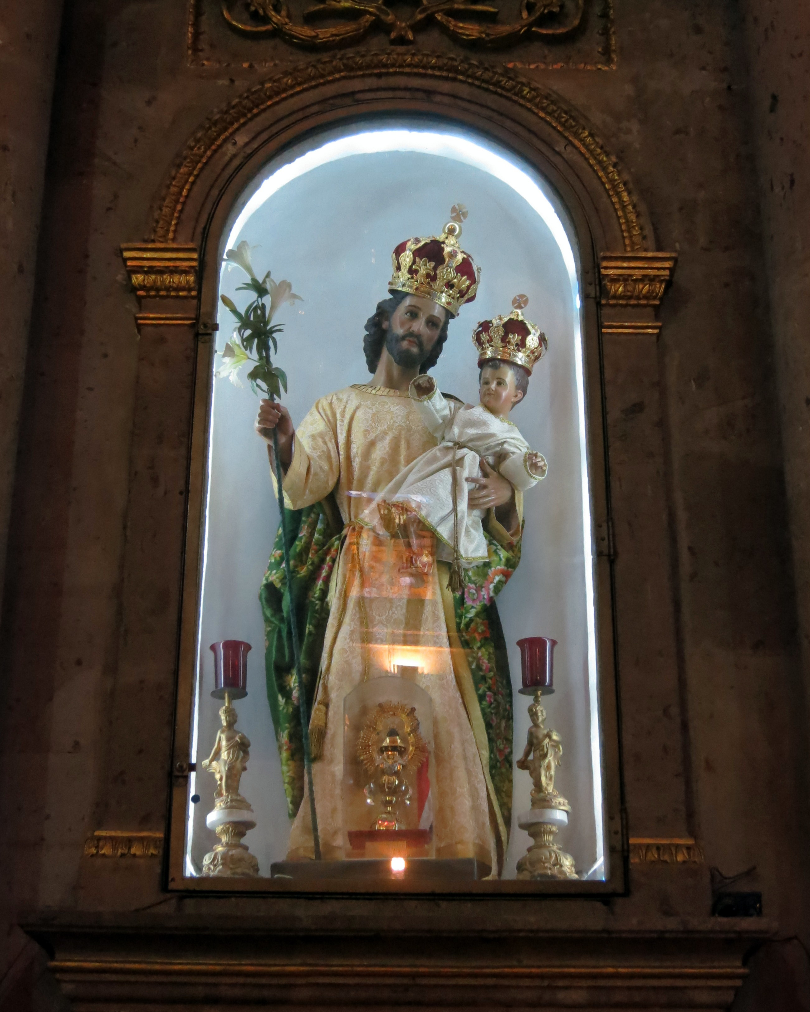 Basílica de Nuestra Señora de Zapopan (Jalisco, Mexico) - statue, St. Joseph